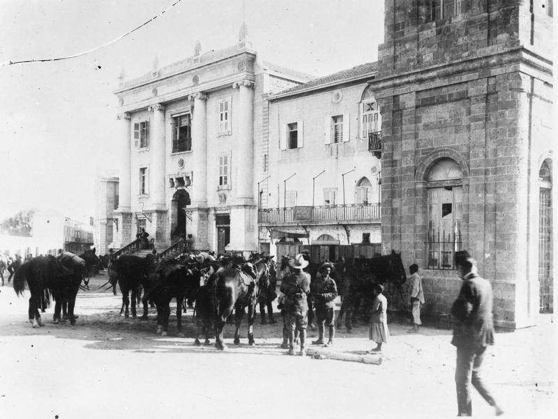 The Municipal Buildings in Jaffa. Men of the Wellington Mounted Rifles Regiment in the foreground This Regiment entered Jaffa on 16th November 1917.